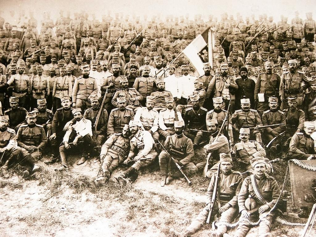 Photography taken at Corfu museum "Serbs on Corfu from 1916 -1918"